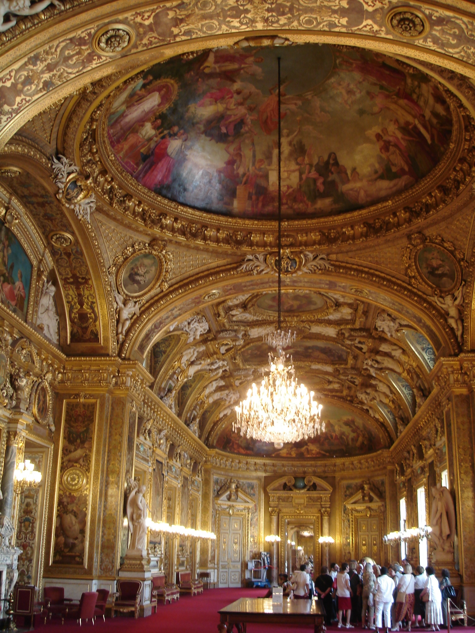 The Conference room of the Palais du Luxembourg, Paris V